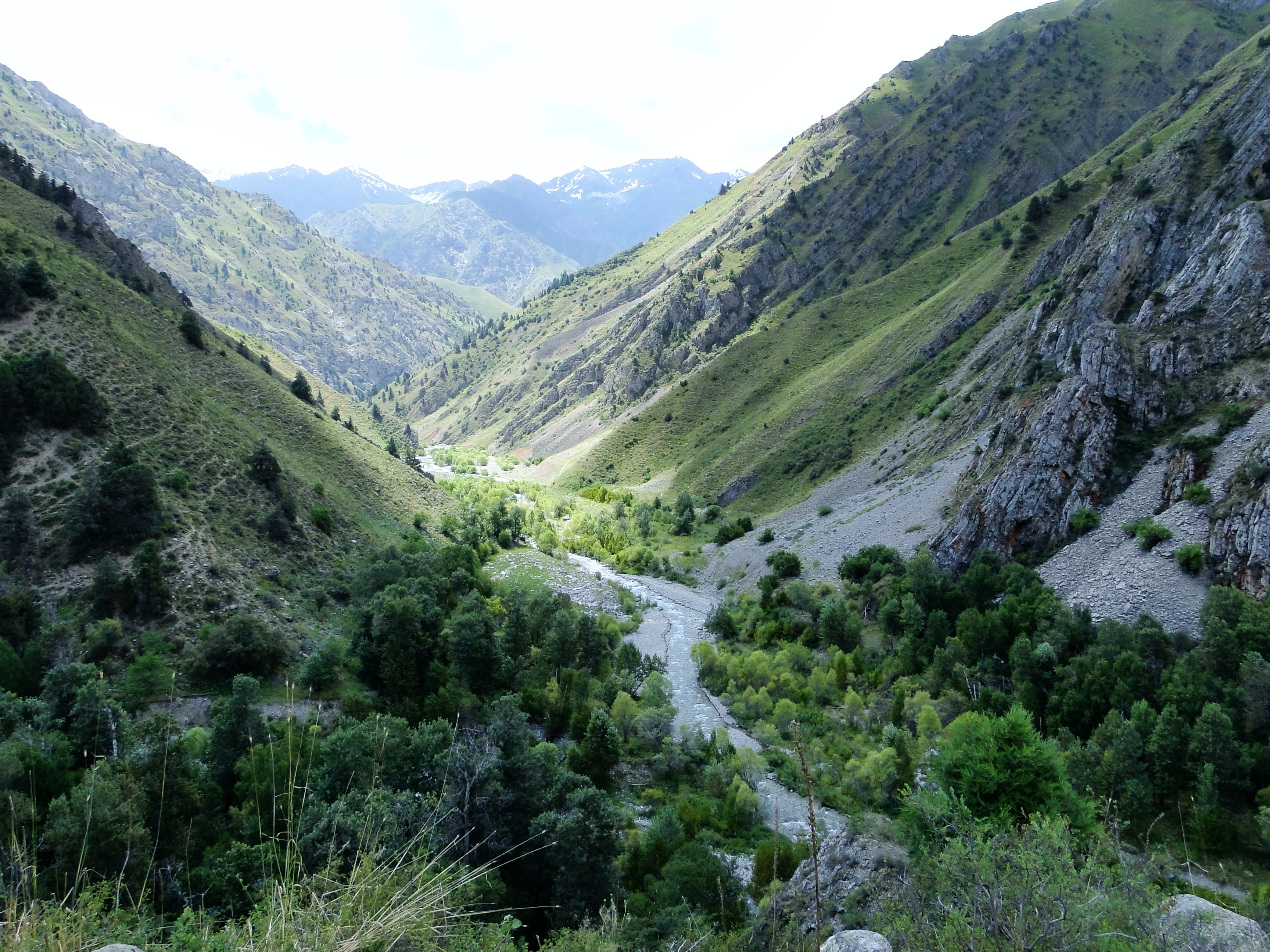 the valley of Chiralma-say, tributary of Oygaying river